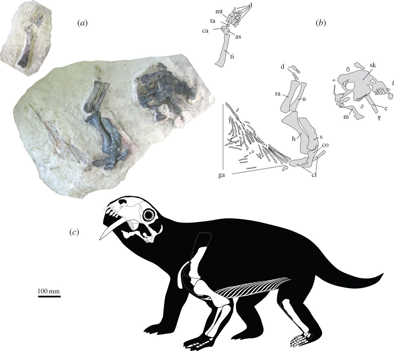 Skeleton of T. eccentricus. (a) Sandstone blocks containing articulated skeletal material. (b) Schematic drawing showing the identity of the preserved elements. (c) Skeletal reconstruction. as, astragalus; c, caniniform; ca, calcaneum; cl, clavicle; co, coracoid; d, digits; ga, gastralia; h, humerus; m, mandible; mt, metatarsals; ra, radius; sk, skull; ti, tibia; ta, tarsal.